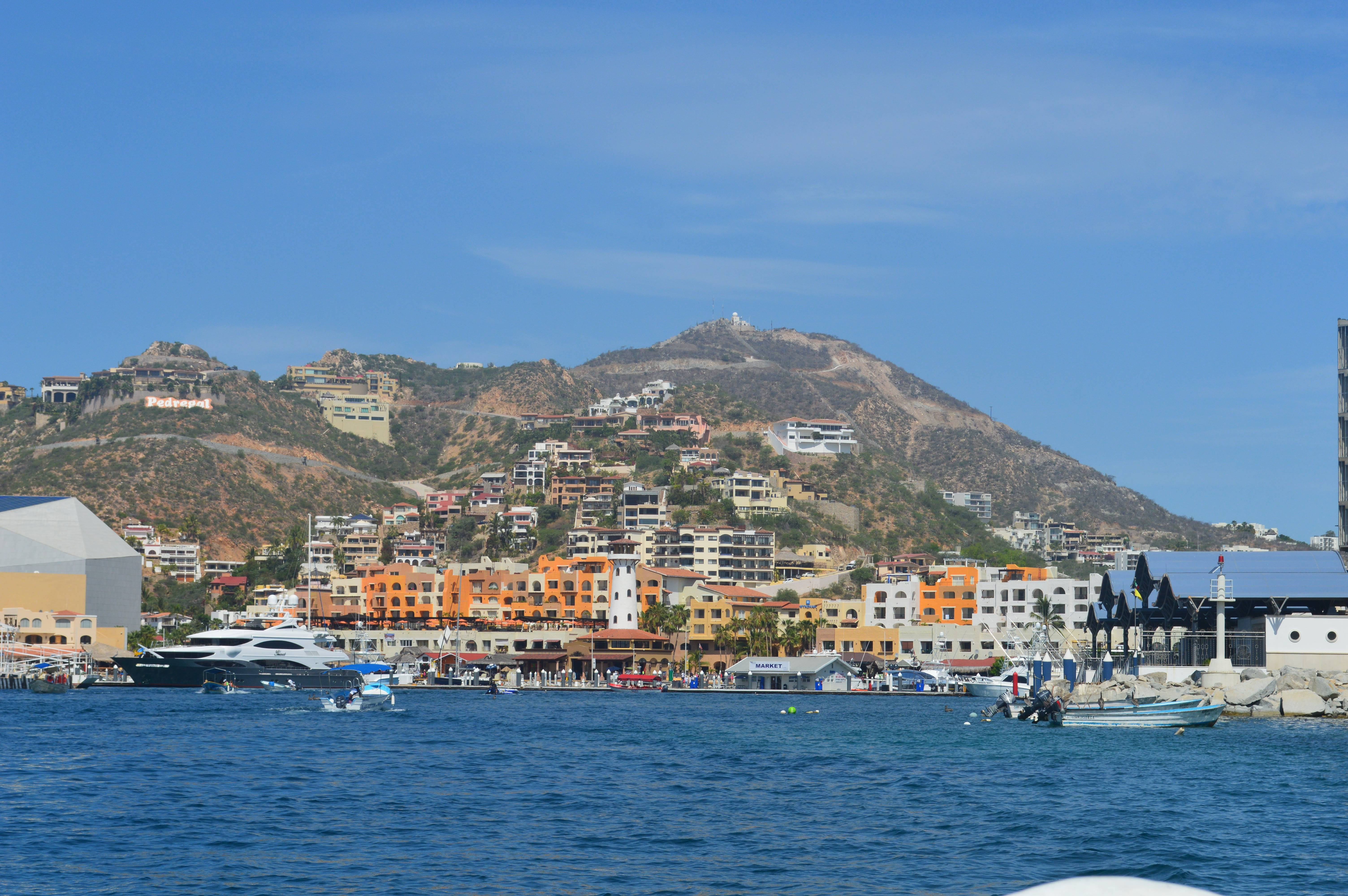 View of the port of Cabo San Lucas from the water, Baja California Sur